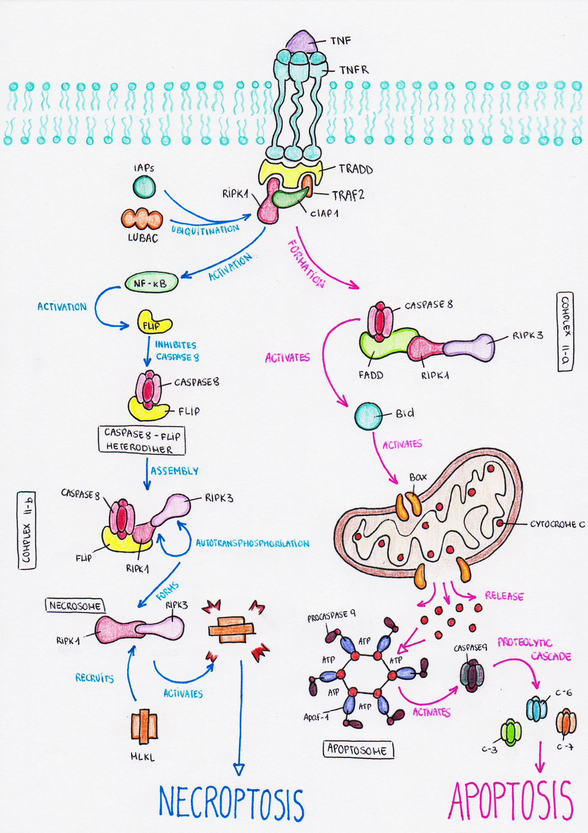 Schematic overview of the pathways to apoptosis and necrosis and its convergencies